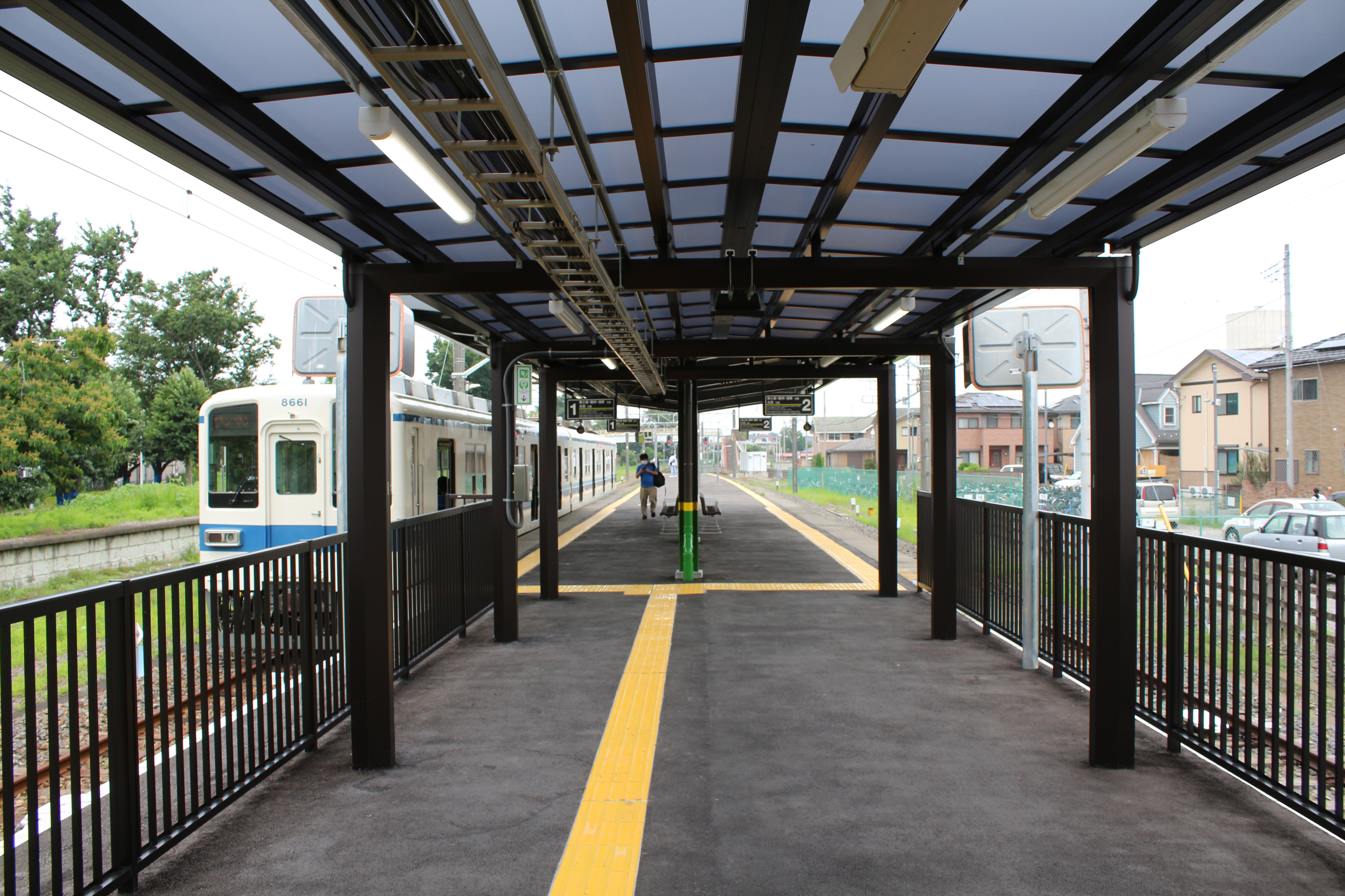 Nishi-Koizumi Station Platform Canon EOS Kiss X7i